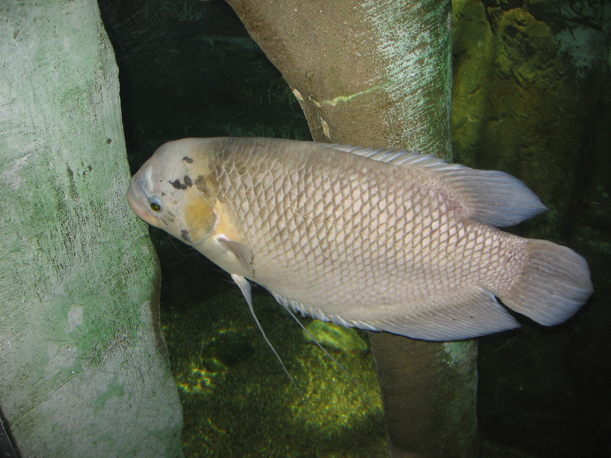 Giant Gourami (Osphronemus goramy)